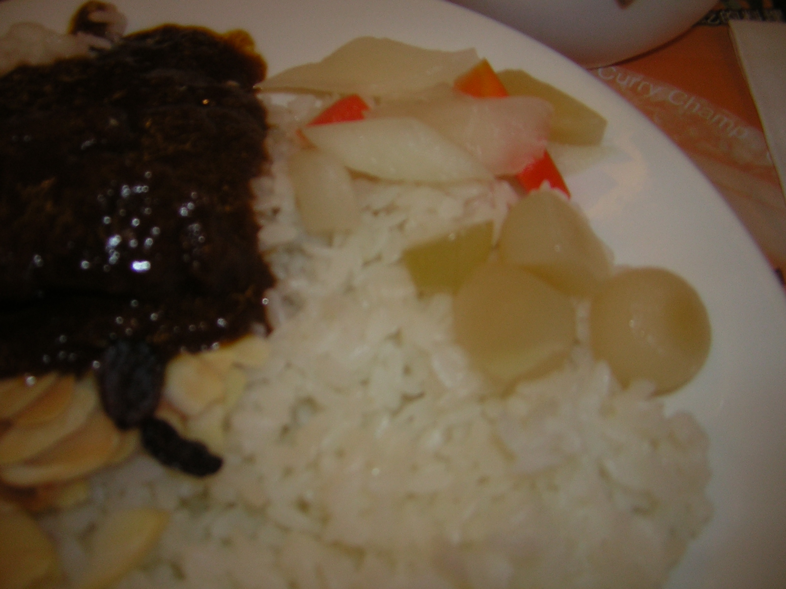 日式咖哩的醃薤白(右邊球形者) Dressed in Japanese-style curry were some pickles made of Allium Chinesis (of spherical shape on the right side.)